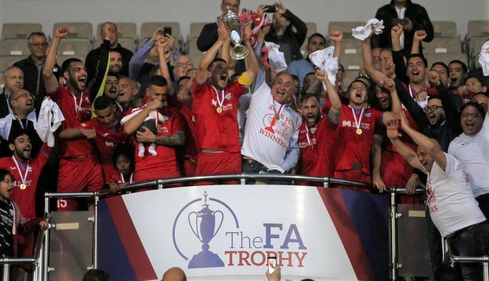 Balzan wins FA Trophy